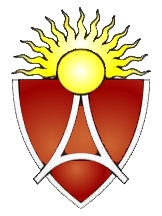 Coat of arms of Aerodrom municipality (City of Skopje, Macedonia)